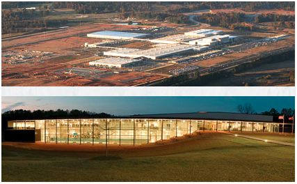 KMMG plant and aerial view